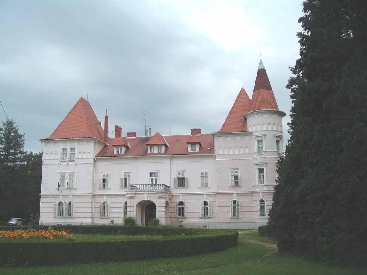 The Bezerédj manor-house in Rum, Hungary